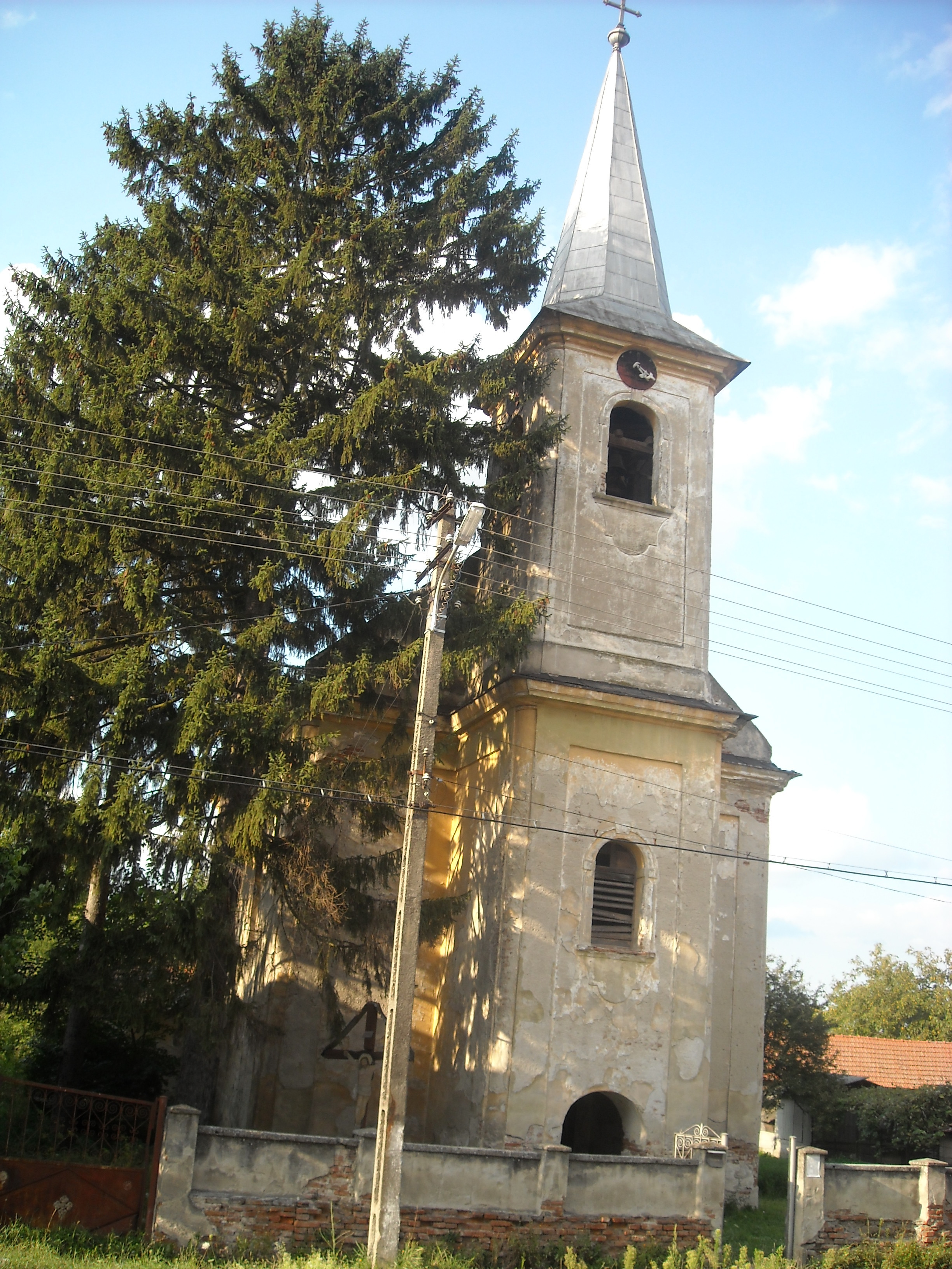 catholic church in Dobra, Hunedoara County, Romania